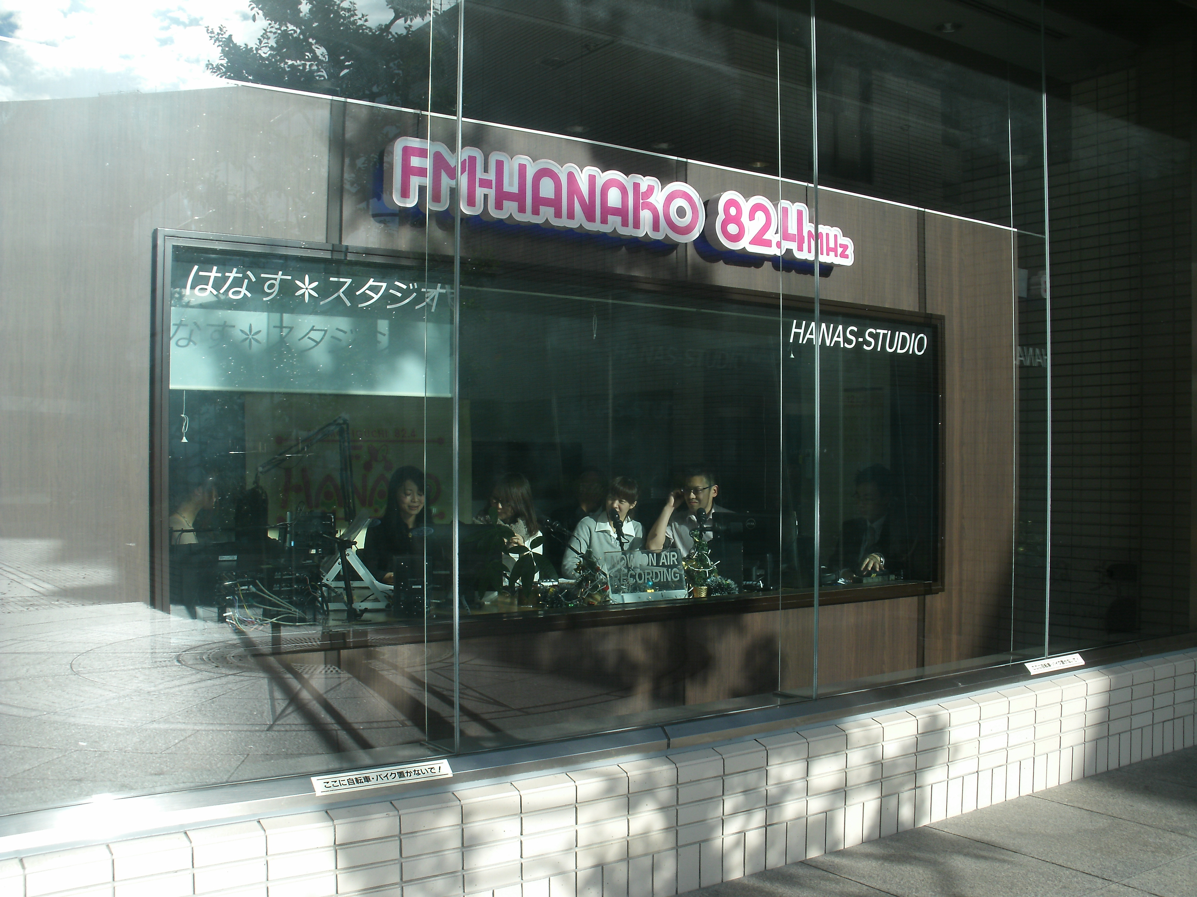 FM HANAKO Hanas Studio